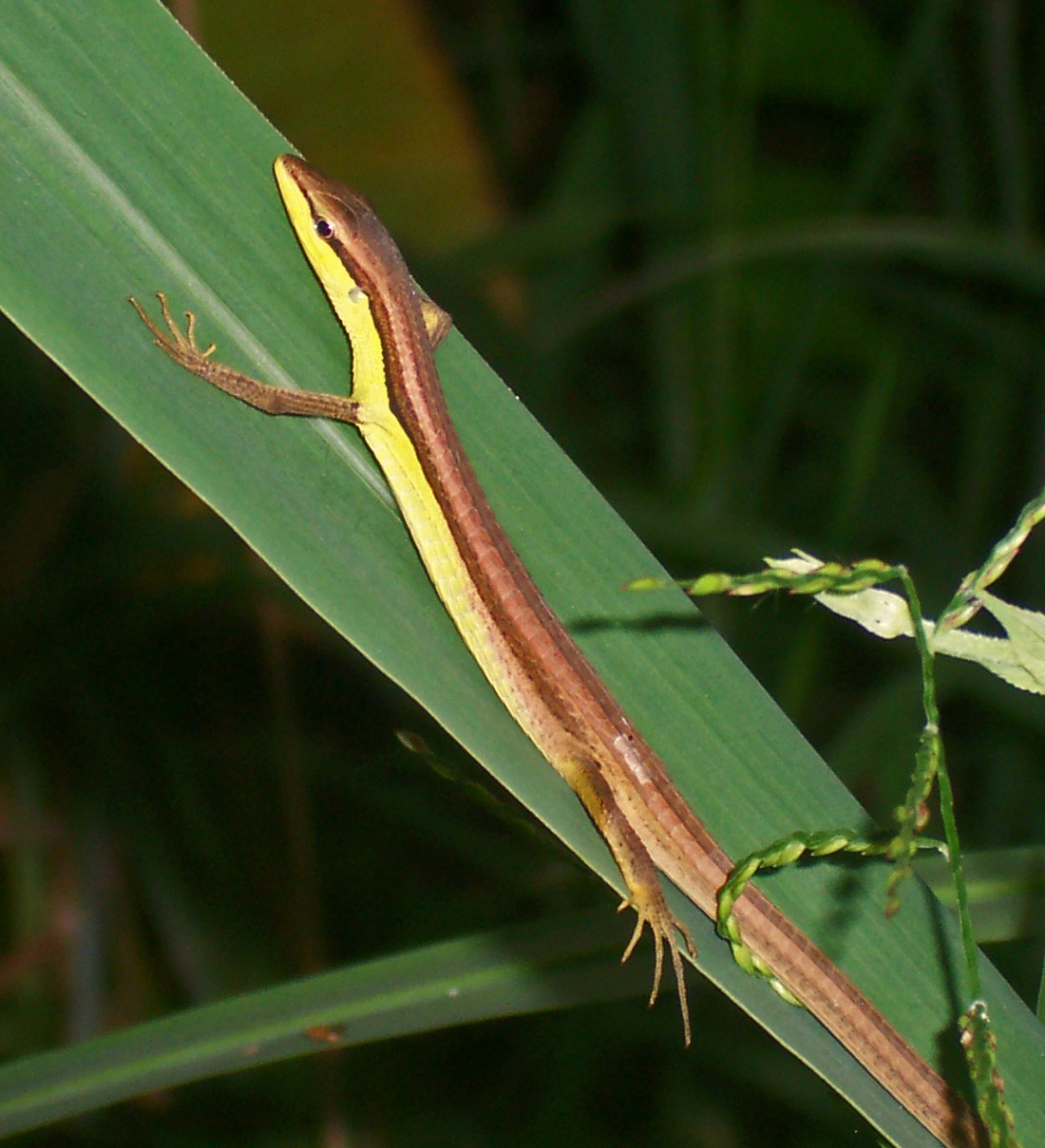 Takydromus sexlineatus, from Darmaga, Bogor, West Java, Indonesia